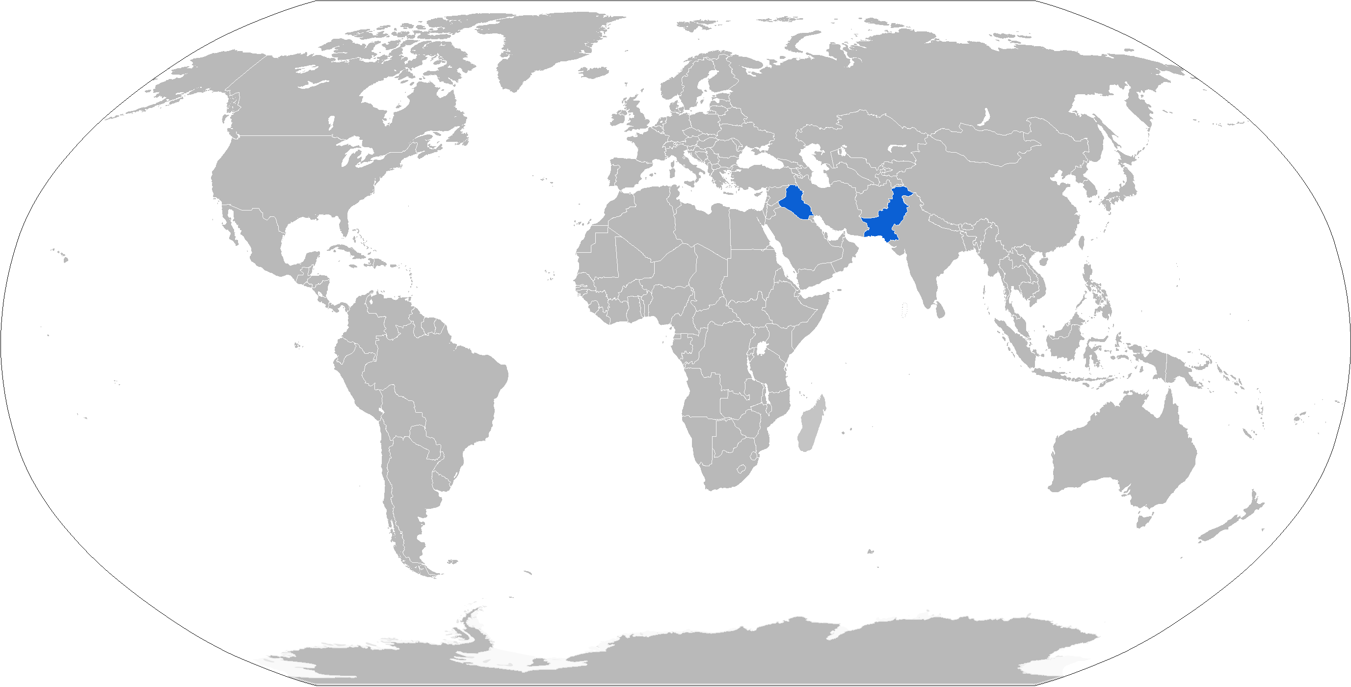 Map with Talha operators in blue